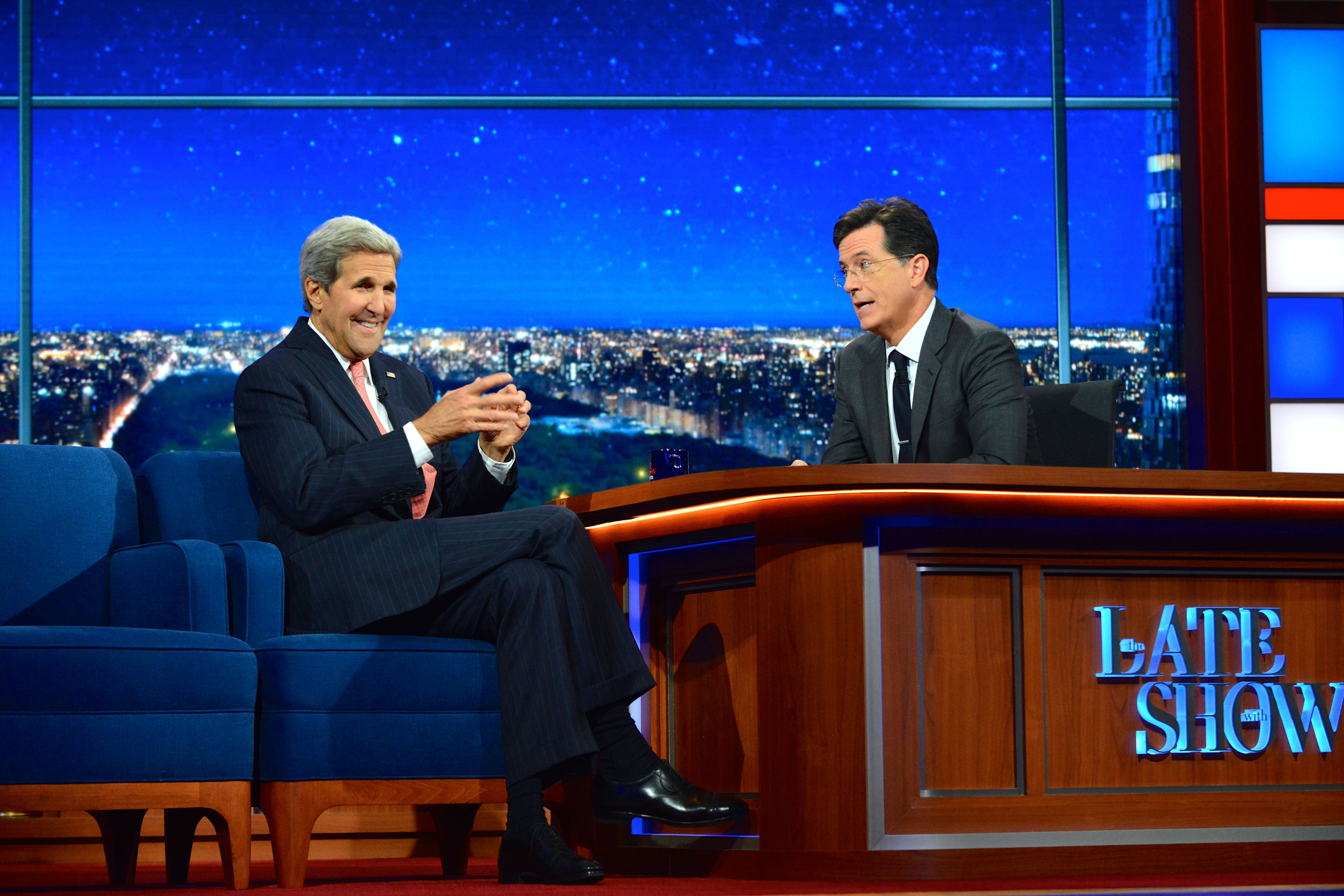 U.S. Secretary of State John Kerry makes an appearance on The Late Show with Stephen Colbert to discuss global affairs in New York City on October 1, 2015. [State Department photo/ Public Domain]